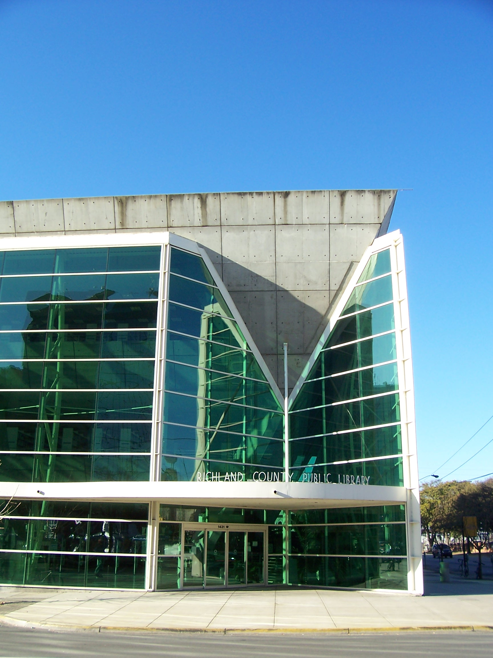 The front door of the Main Library of the Richland County Public Library in Columbia, South Carolina